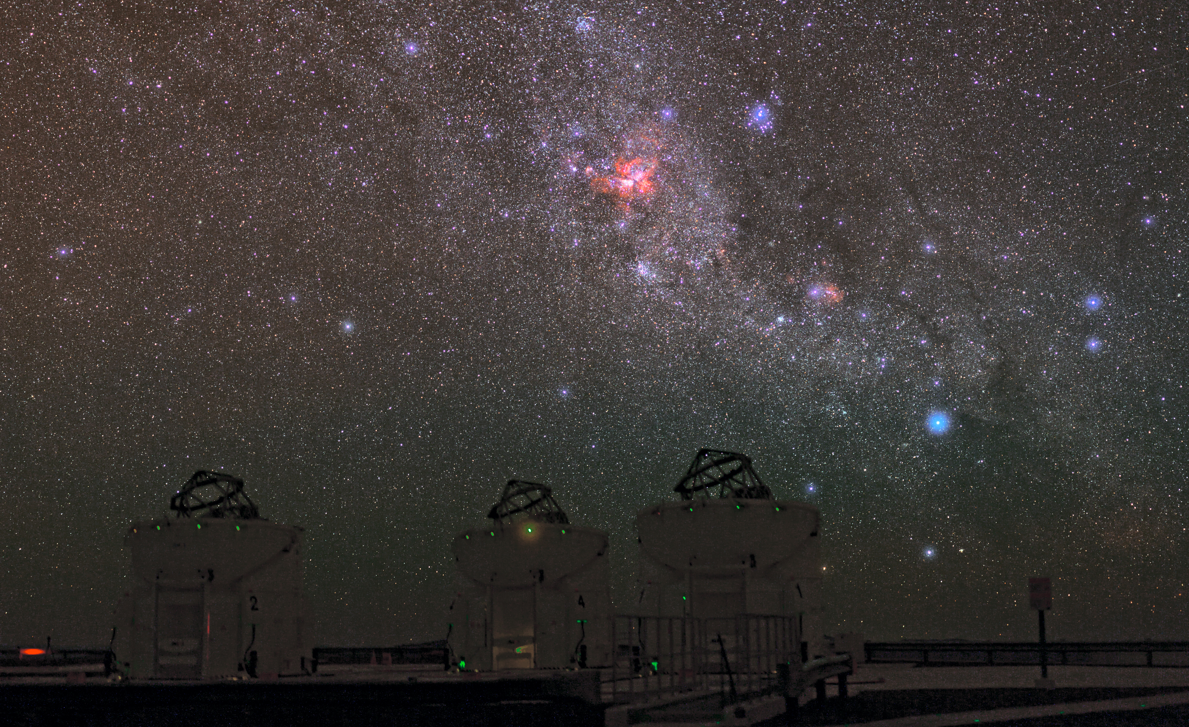 ESO Photo Ambassador, Babak Tafreshi has captured an outstanding image of the sky over ESO’s Paranal Observatory, with a treasury of deep-sky objects. The most obvious of these is the Carina Nebula, glowing intensely red in the middle of the image. The Carina Nebula lies in the constellation of Carina (The Keel), about 7500 light-years from Earth. This cloud of glowing gas and dust is the brightest nebula in the sky and contains several of the brightest and most massive stars known in the Milky Way, such as Eta Carinae. The Carina Nebula is a perfect test-bed for astronomers to unveil the mysteries of the violent birth and death of massive stars. For some beautiful recent images of the Carina Nebula from ESO, see eso1208, eso1145, and eso1031. Below the Carina Nebula, we see the Wishing Well Cluster (NGC 3532). This open cluster of young stars was named because, through a telescope’s eyepiece, it looks like a handful of silver coins twinkling at the bottom of a wishing well. Further to the right, we find the Lambda Centauri Nebula (IC 2944), a cloud of glowing hydrogen and newborn stars which is sometimes nicknamed the Running Chicken Nebula, from a bird-like shape that some people see in its brightest region (see eso1135). Above this nebula and slightly to the left we find the Southern Pleiades (IC 2632), an open cluster of stars that is similar to its more familiar northern namesake. In the foreground, we see three of the four Auxiliary Telescopes (ATs) of the Very Large Telescope Interferometer (VLTI). Using the VLTI, the ATs — or the VLT’s 8.2-metre Unit Telescopes — can be used together as a single giant telescope which can see finer details than would be possible with the individual telescopes. The VLTI has been used for a broad range of research including the study of circumstellar discs around young stellar objects and of active galactic nuclei, one of the most energetic and mysterious phenomena in the Universe.